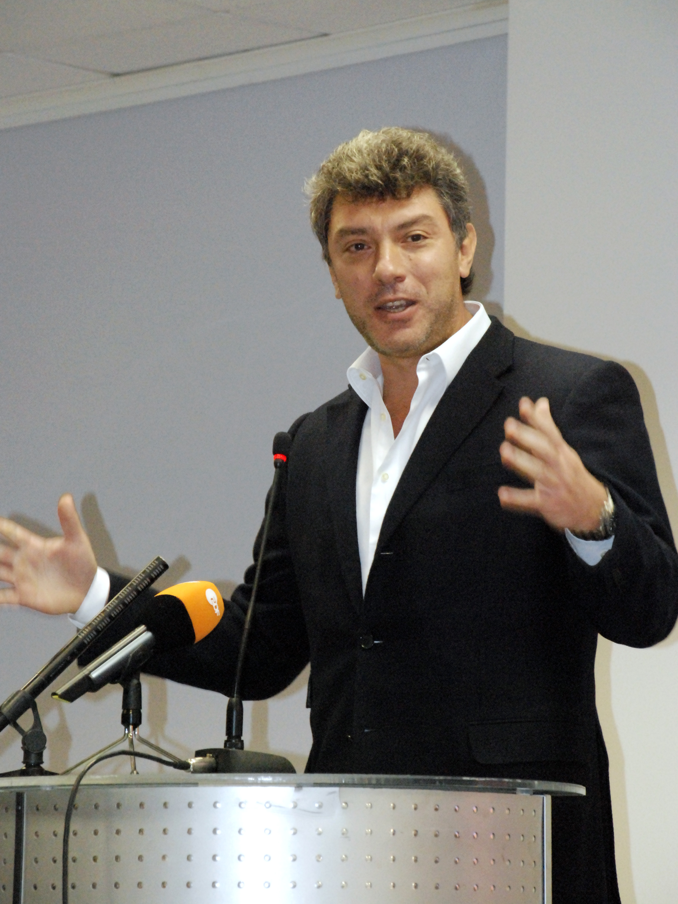 Boris Neiman